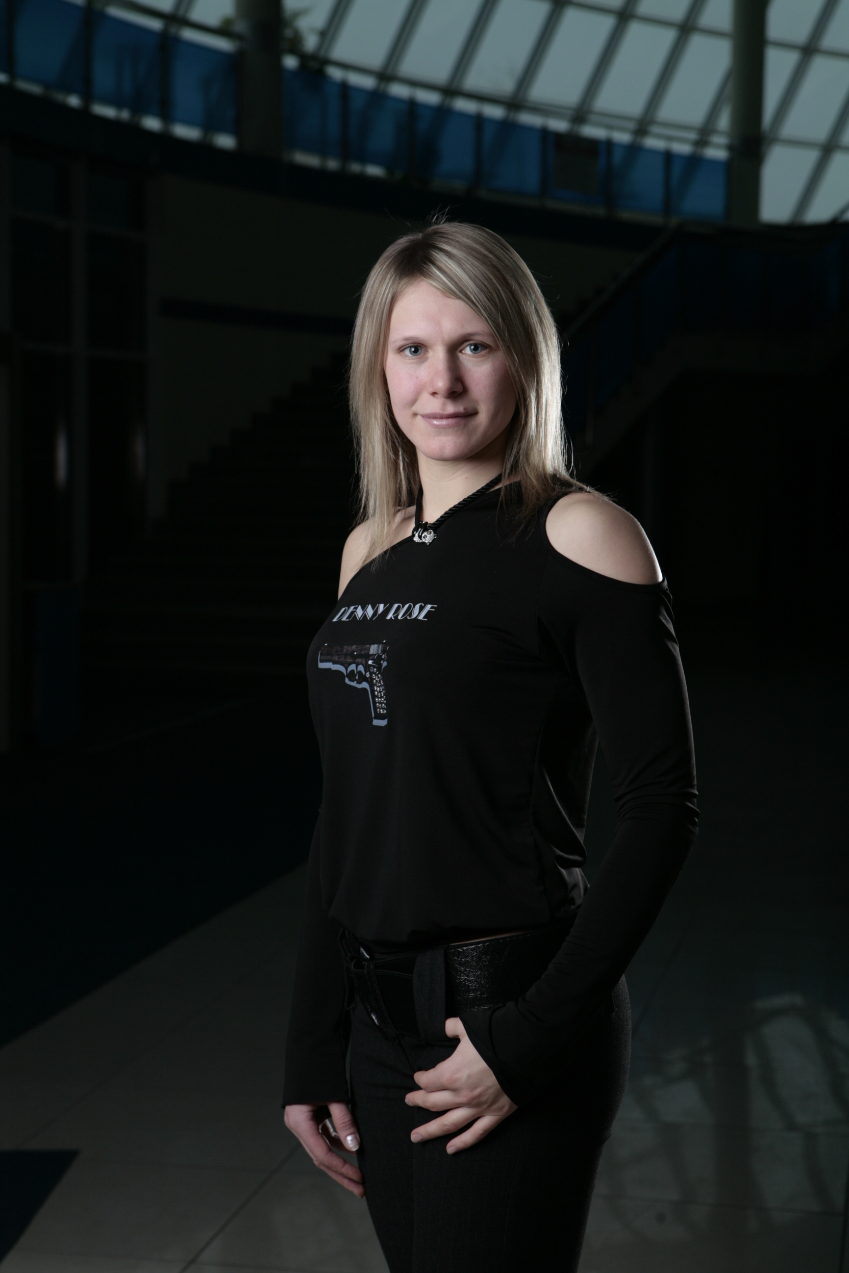 Best female Russian hockey player in season 2007/2008 Ekaterina Smolentseva.